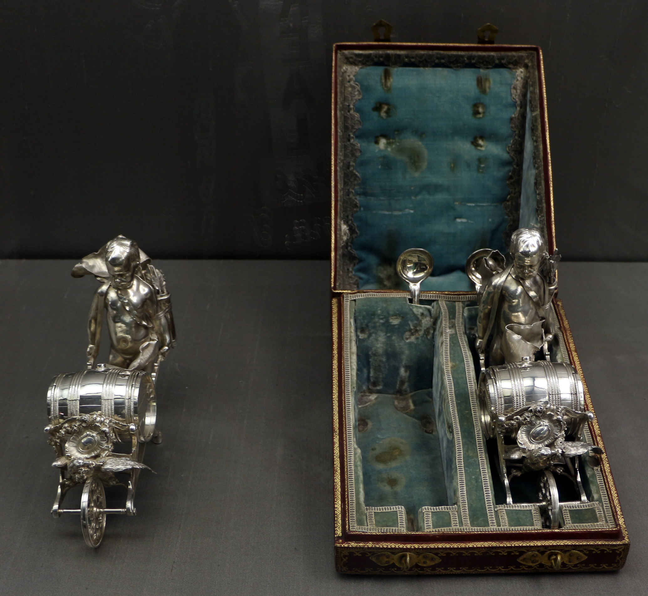 Silverware in the Calouste Gulbenkian Museum